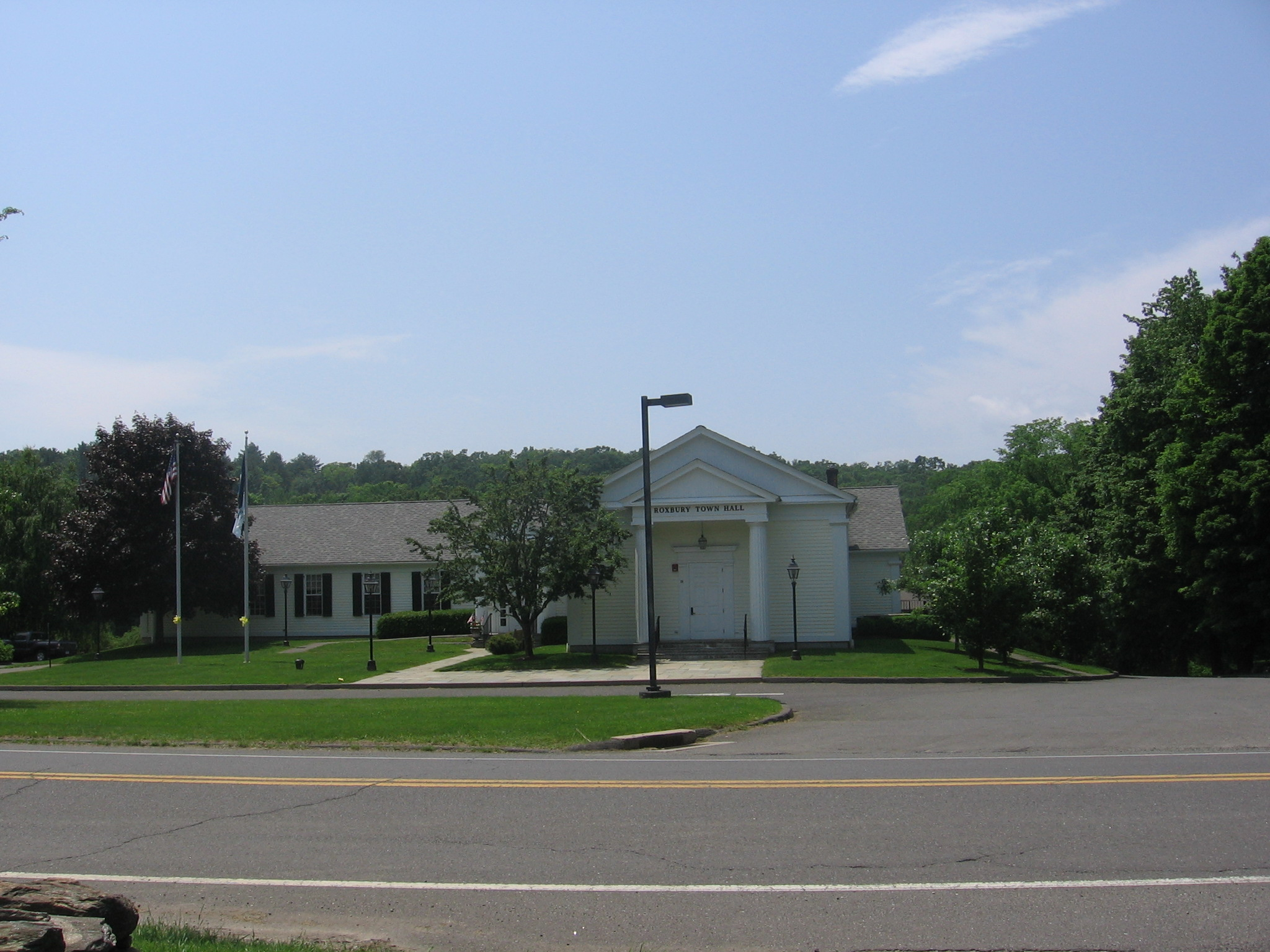 The Roxbury Town Hall in a view looking west while standing along North Street (CT Route 67).